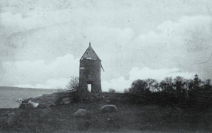 Print (photomechanical), Old windmill, Grondines, QC, about 1910. Ink on paper mounted on card - Collotype - 9.1 x 13.5 cm Gift of Mr. Stanley G. Triggs MP-0000.1194.1